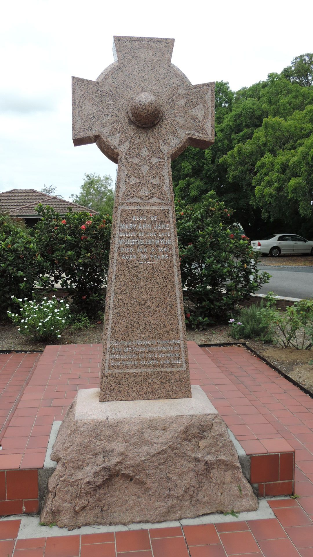 Memorial cross for Alfred Lutwyche with memorial for his wife, Mary Ann (Jane) Lutwyche, on the reverse (shown), 2014